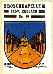 Coat of arms of Boschkapelle (Netherlands)